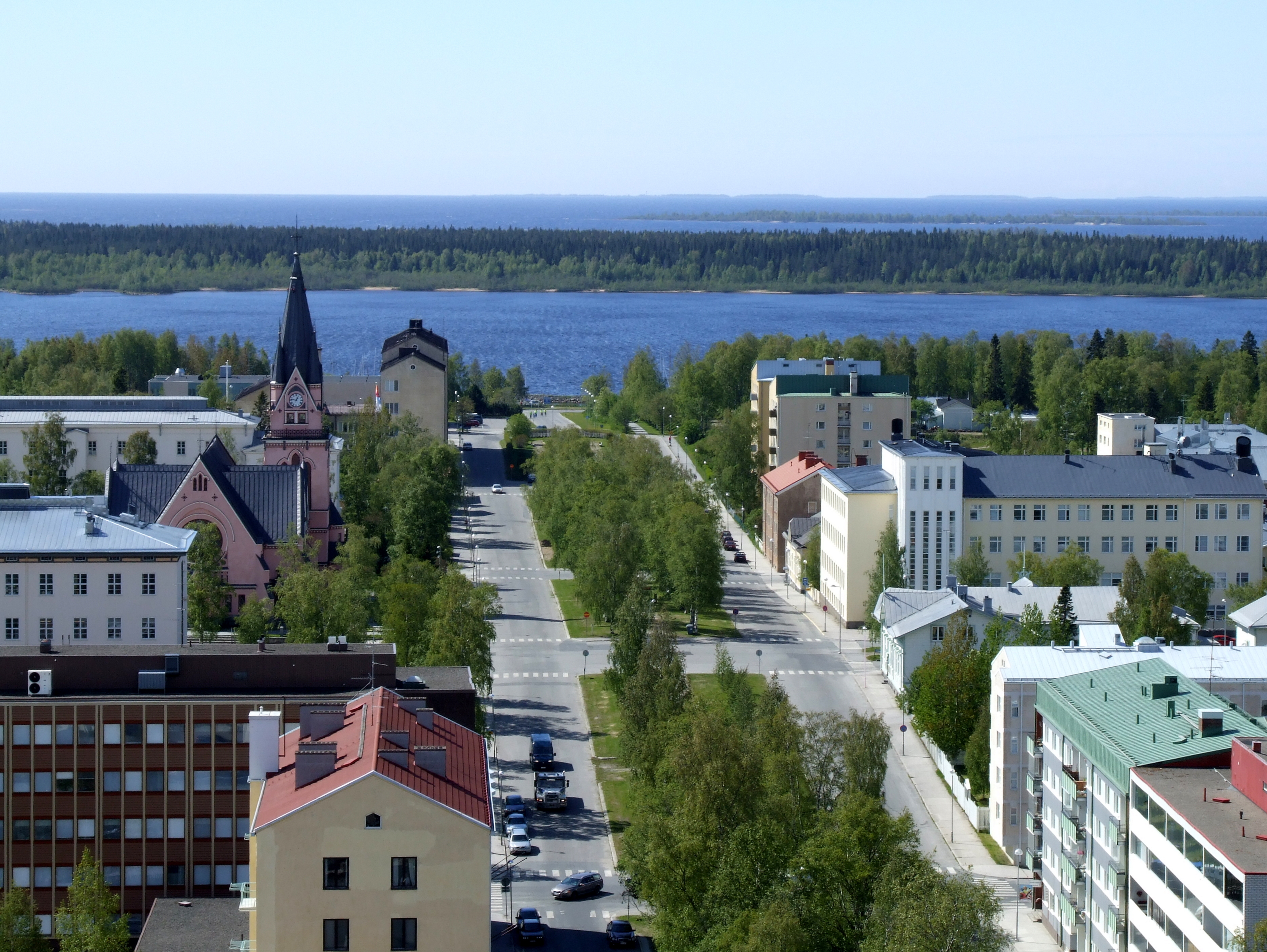 Meripuistokatu street in Kemi, Finland.